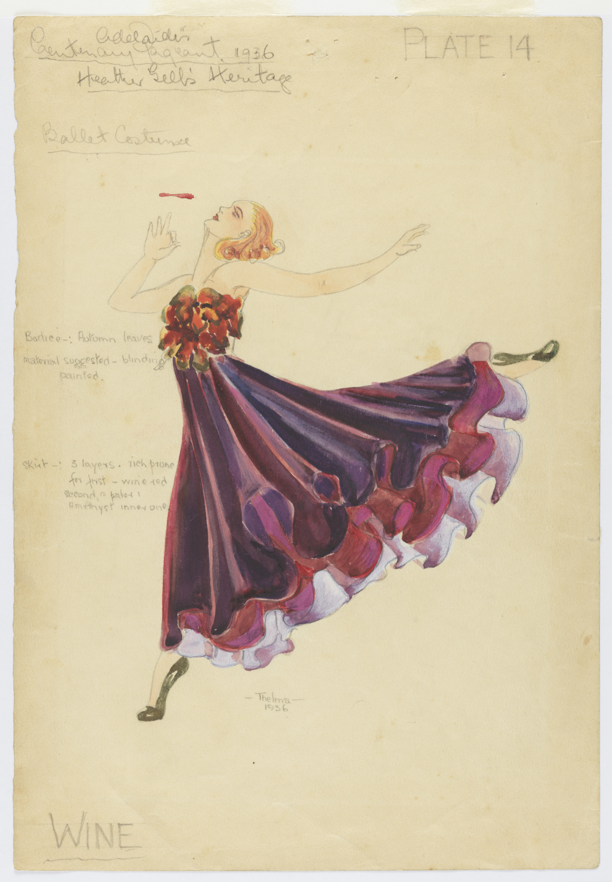 Wine Ballet Costume for Adelaide’s Centenary Pageant, 1936, Thelma Afford (nee Thomas), State Library of New South Wales PX*D 330/f.9